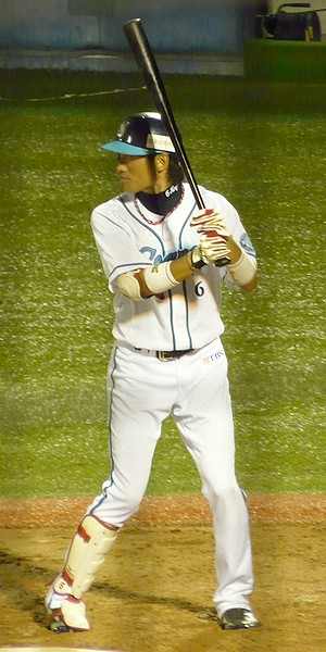 Keijiro Matsumoto, outfielder of the Shonan Searex, at Yokosuka Stadium.